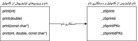 در این تصویر می‌توانید تغییرات ایجاد شده به وسیله‌ی تکنیک دستکاری نام را مشاهده کنید.